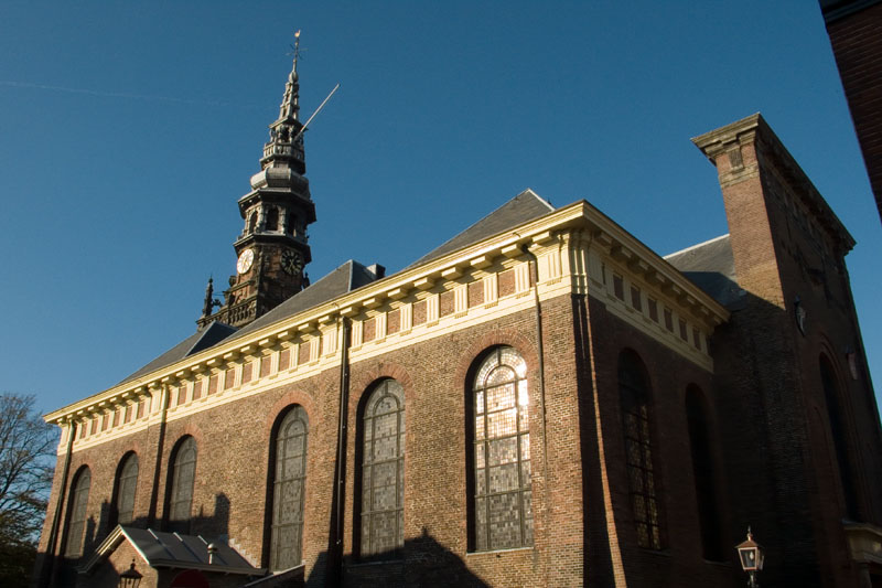 Nieuwe Kerk in Haarlem, The Netherlands. Seen from the corner Nieuwe Raamstraat and Nieuwe Kerksplein